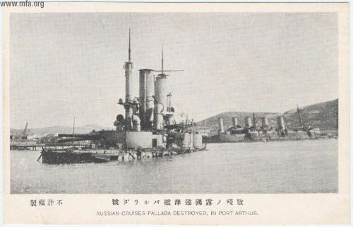 Japanese postcard of Russian battleship Poltava and other ships after their sinking during the Siege of Port Arthur